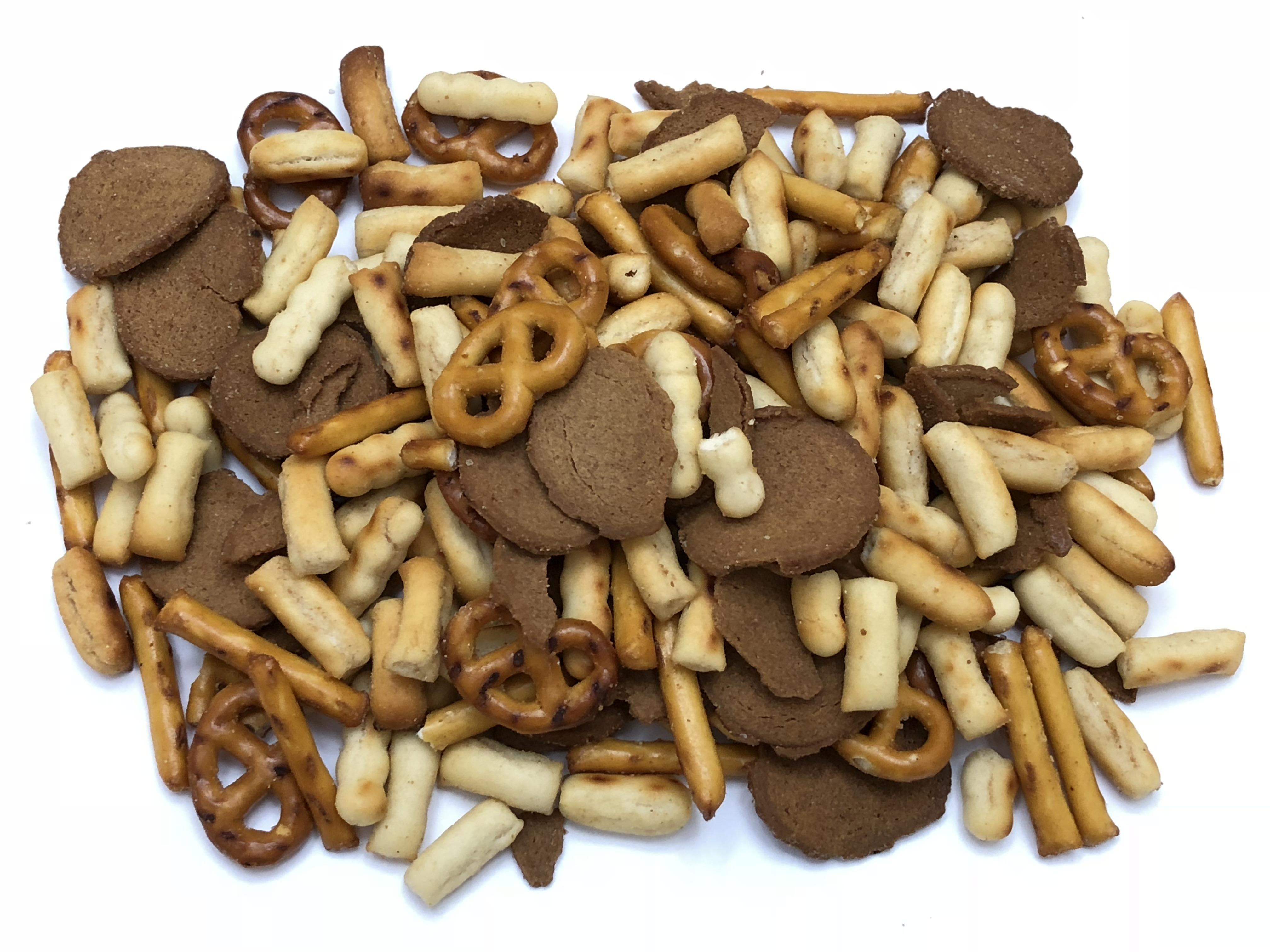 The contents of a bag of Gardetto's snack mix in the Franklin Farm section of Oak Hill, Fairfax County, Virginia